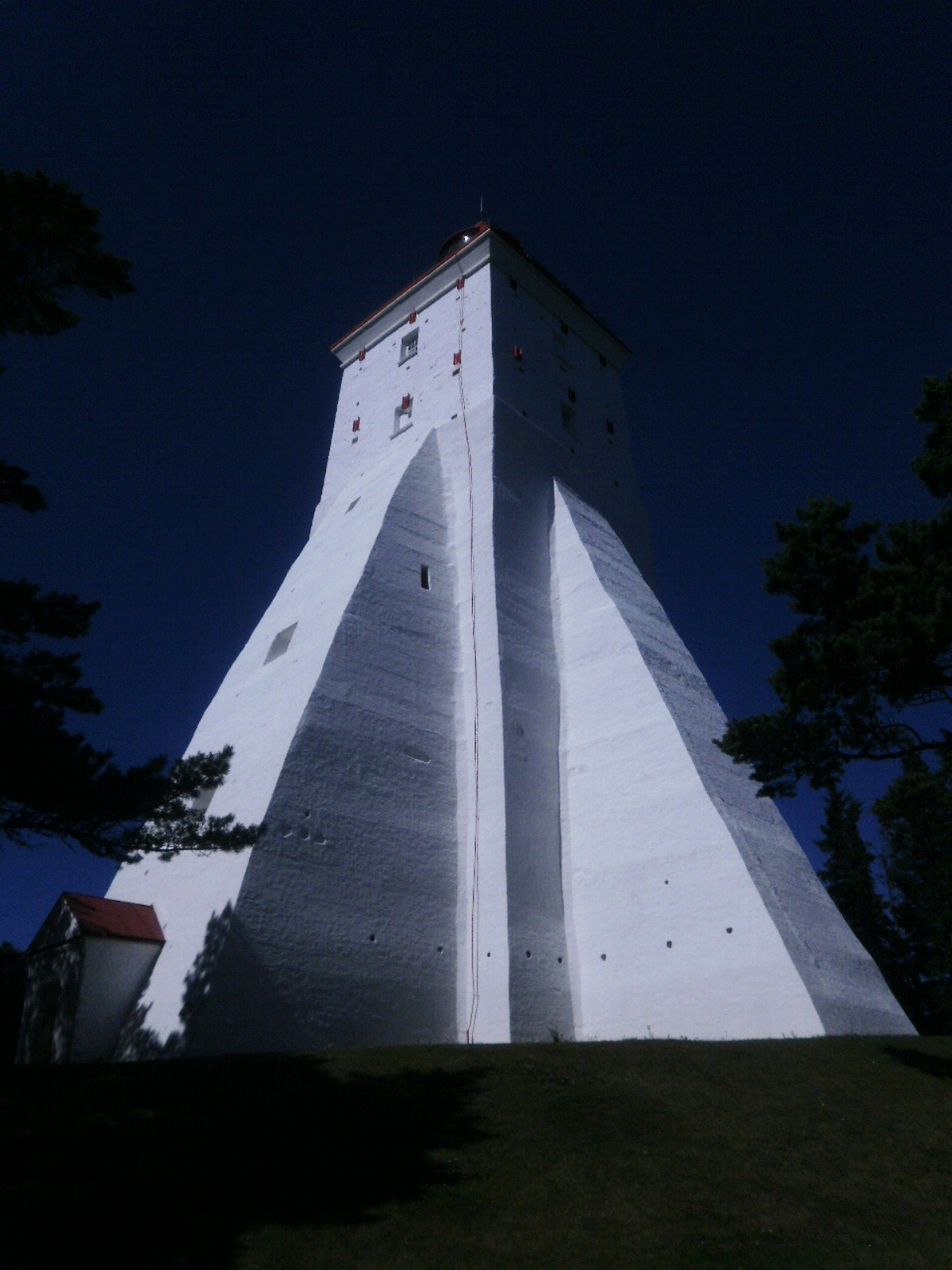 Kõpu lighthouse, Hiiumaa island, Estonia.